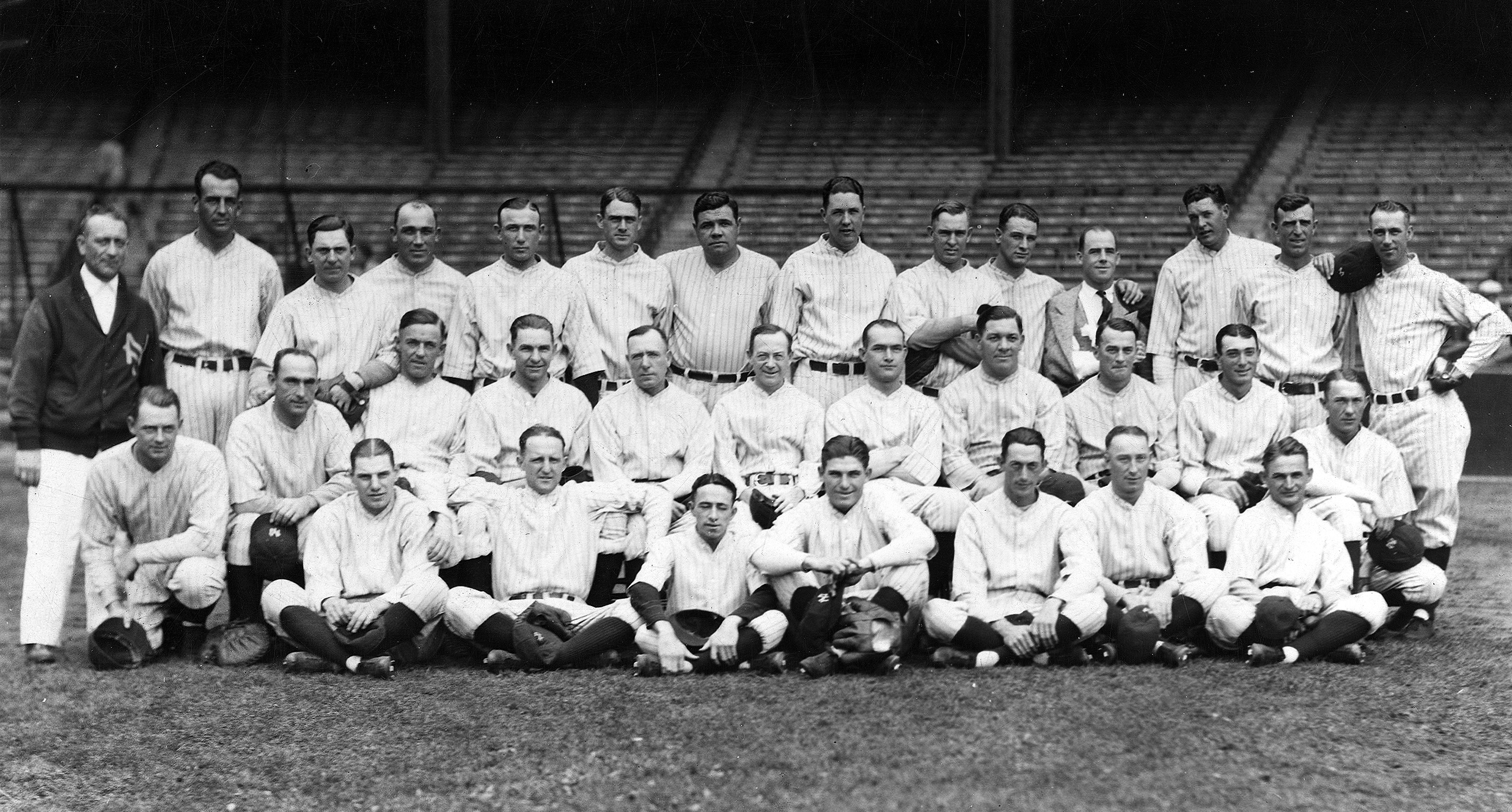 1926 New York Yankees baseball team posed